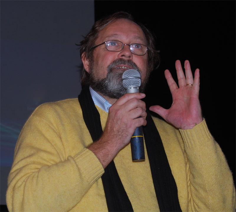 Christoph Baker of Unicef in Sansepolcro, Italy, 2010-12-04.